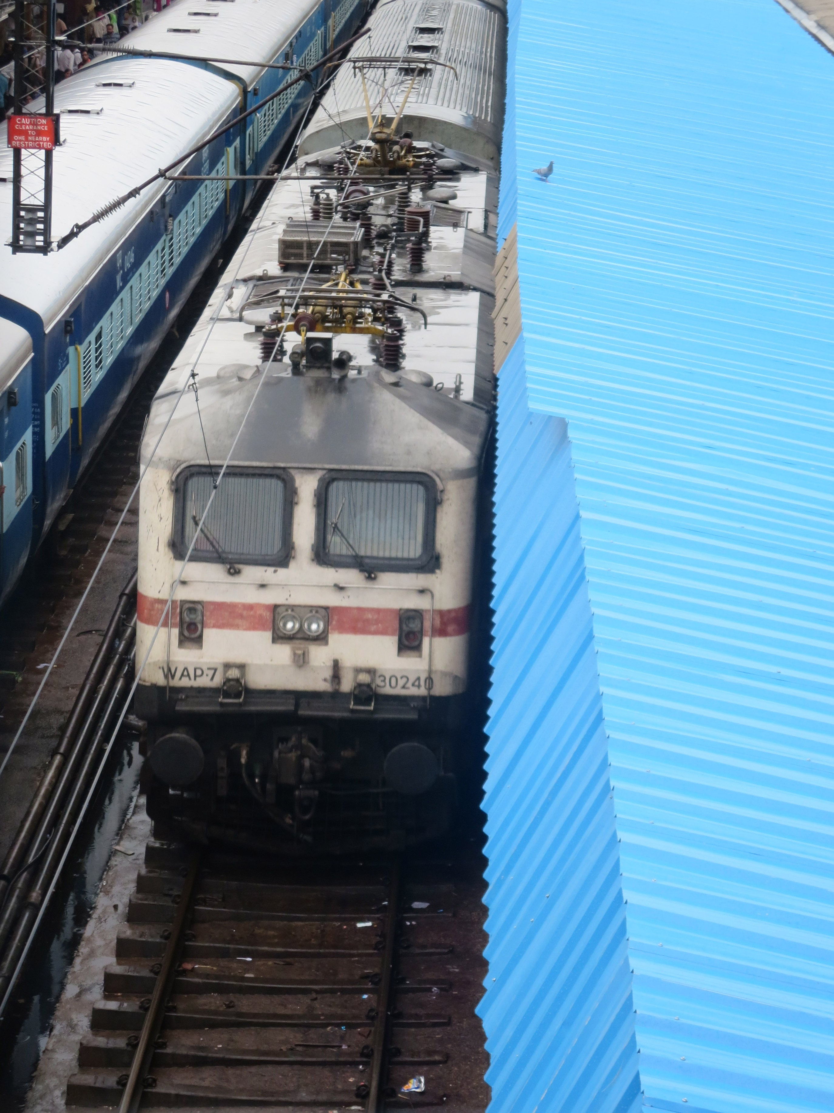 A WAP7 hauled NZM-SC Duronto arriving on platform no.6 of Hazrat Nizamuddin Railway Station